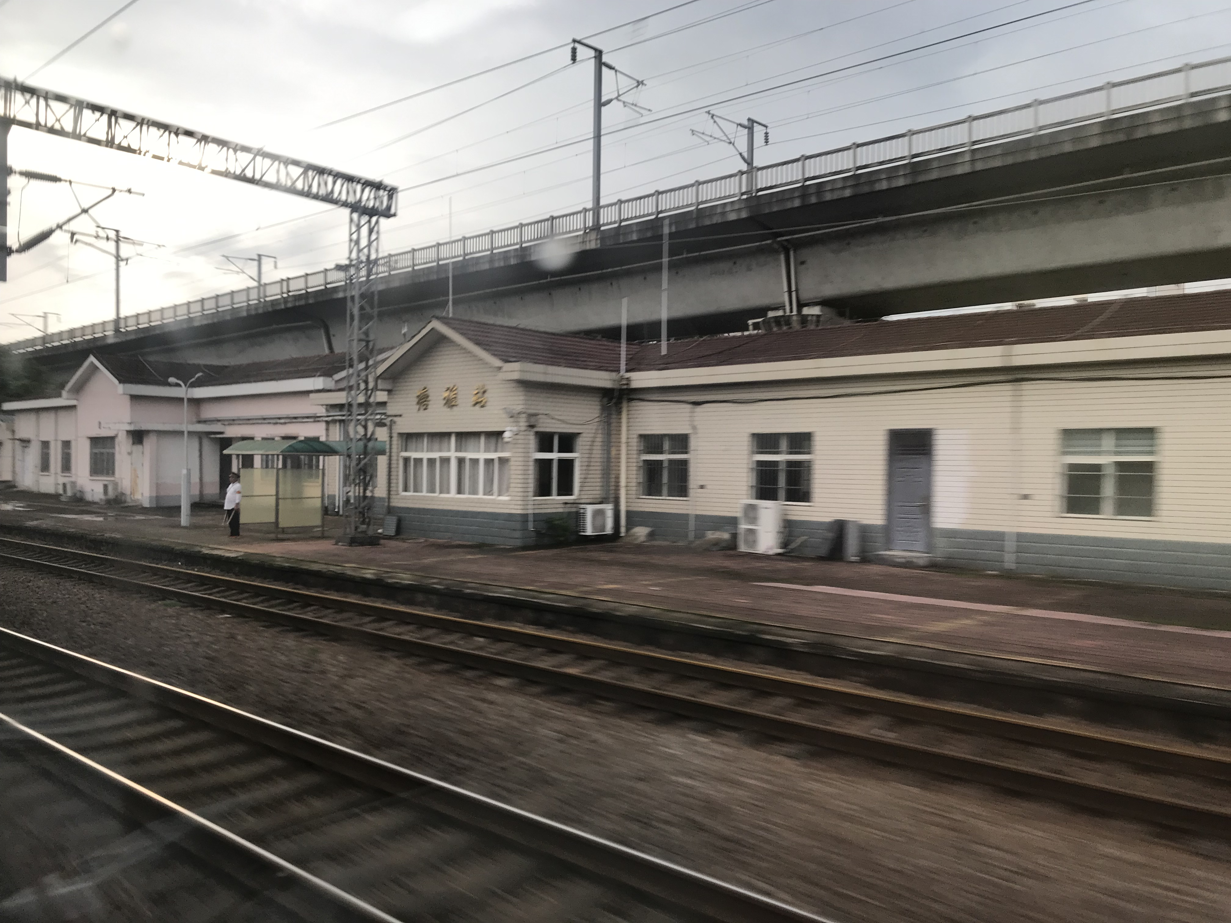 201907 Station Building of Tangya